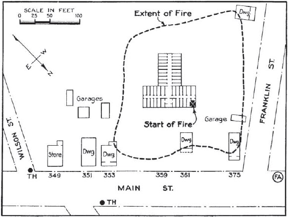 Diagram illustrating the 1937 Fox vault fire and the surrounding area